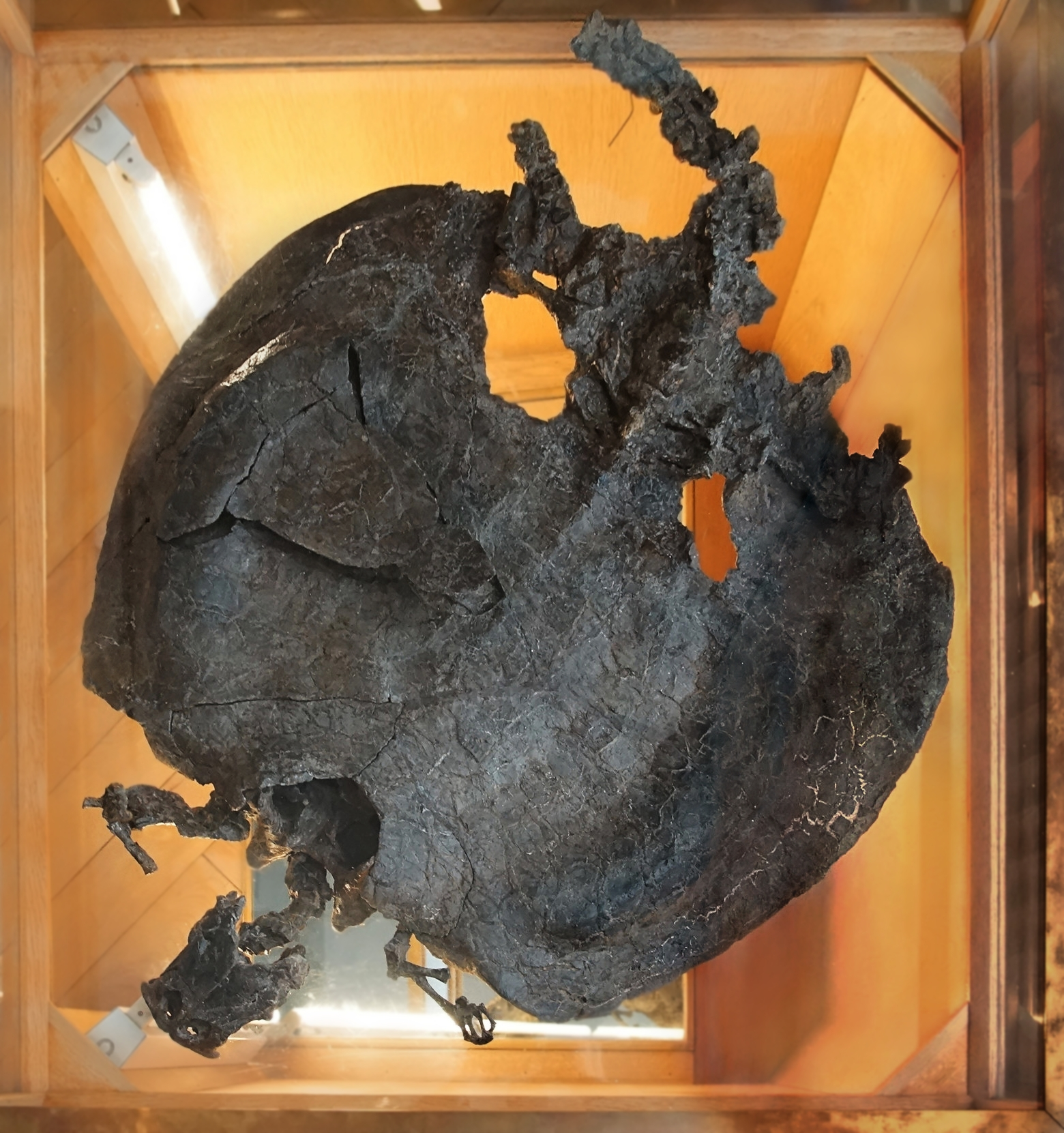 Henodus chelyops